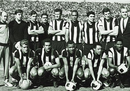 Peñarol line up in 1965